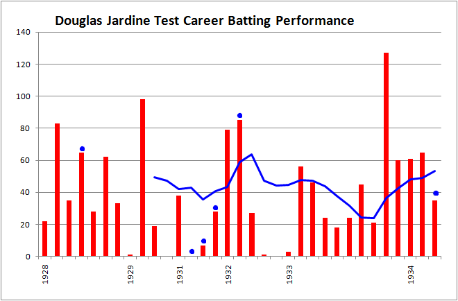 Test career batting chart for Douglas Jardine. Blue line is an average for ten most recent innings, blue dots are not outs. Bars are runs scored.